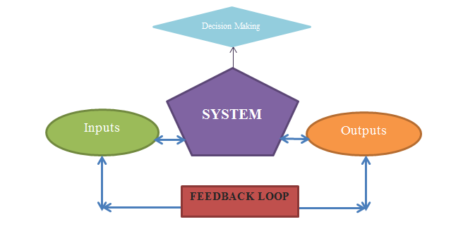 Feedback Loop Operation